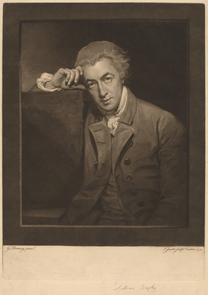 William Hayley Johann Jacobe after George Romney